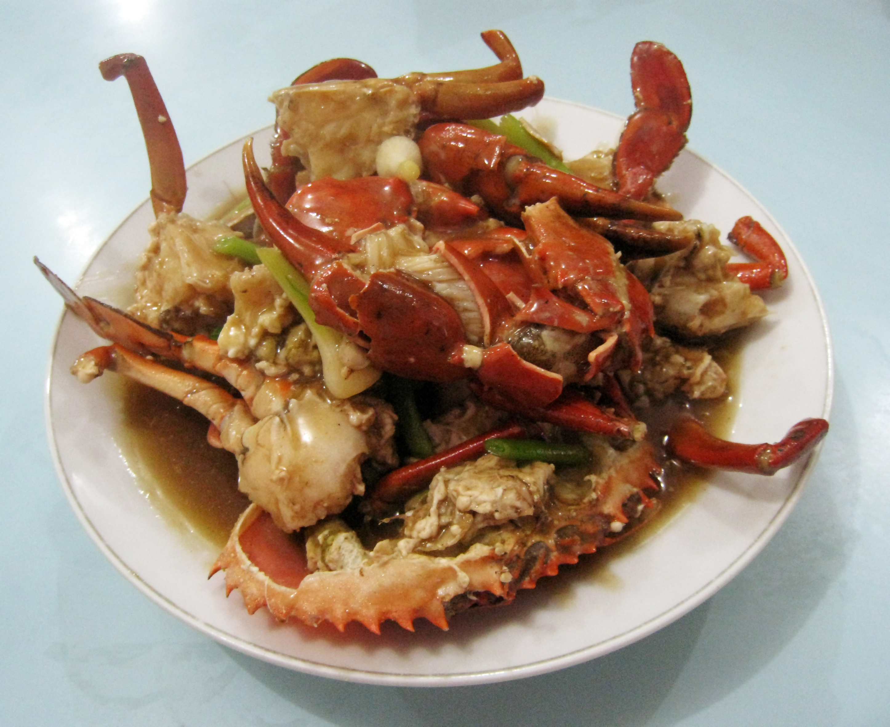 Kepiting Saus Tiram, or crab in oyster sauce. An Indonesian Chinese dish, served in Pecenongan Area, Central Jakarta, Indonesia.